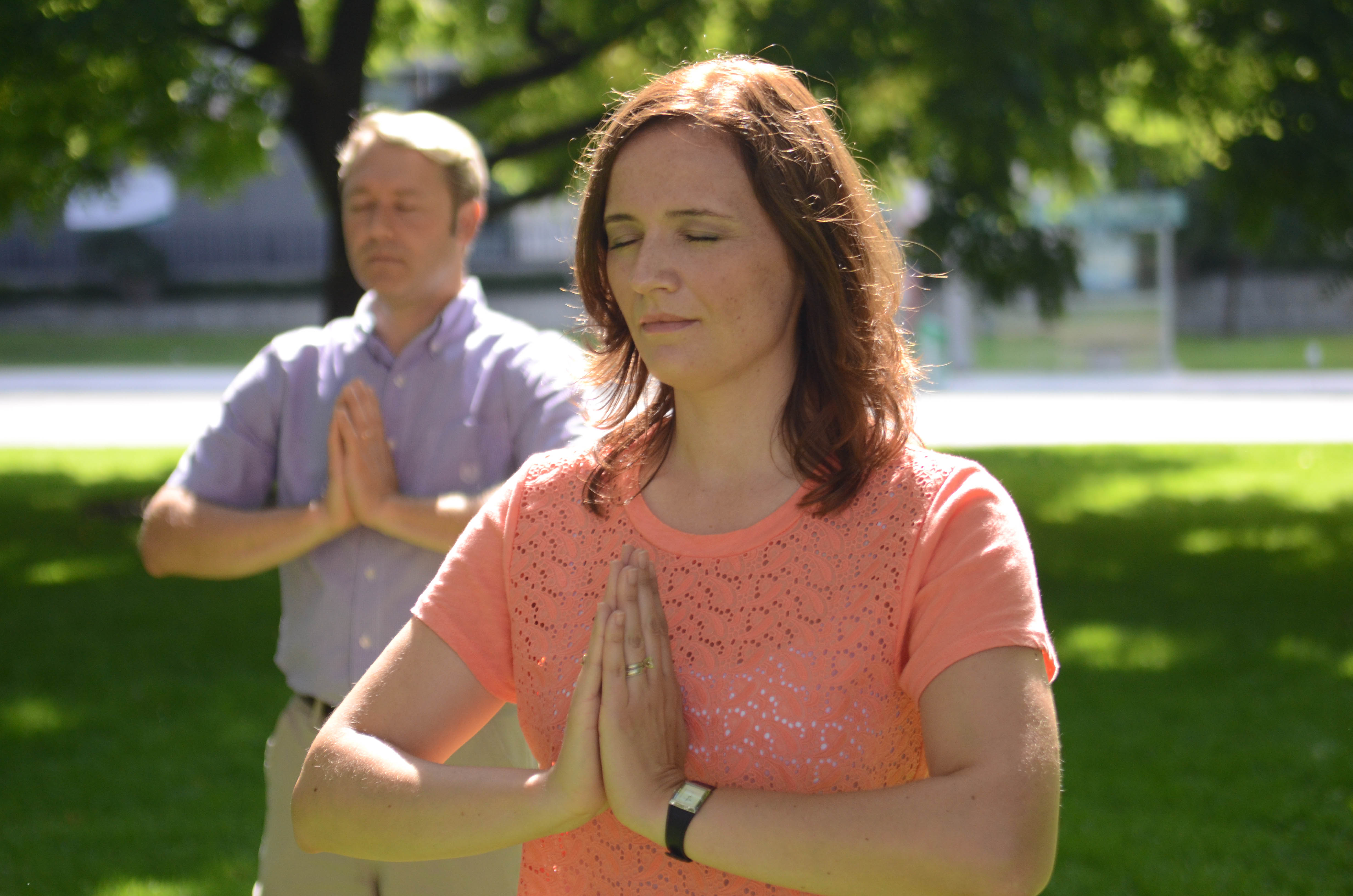 Falun Gong practitioners hold their hands in the "heshi" position while doing the Falun Gong exercises in Canada.